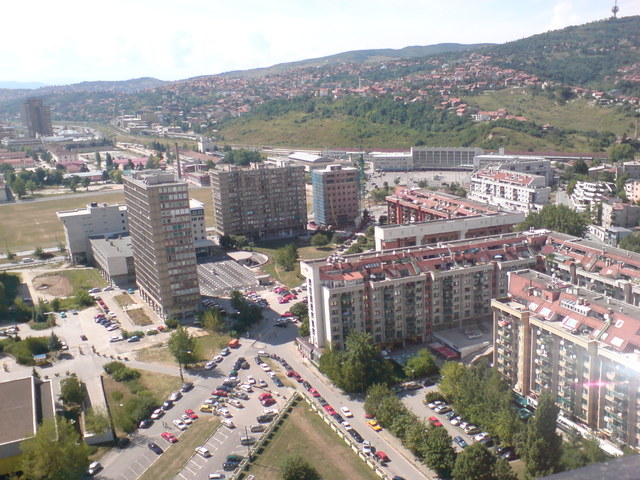 Marijin Dvor, Sarajevo